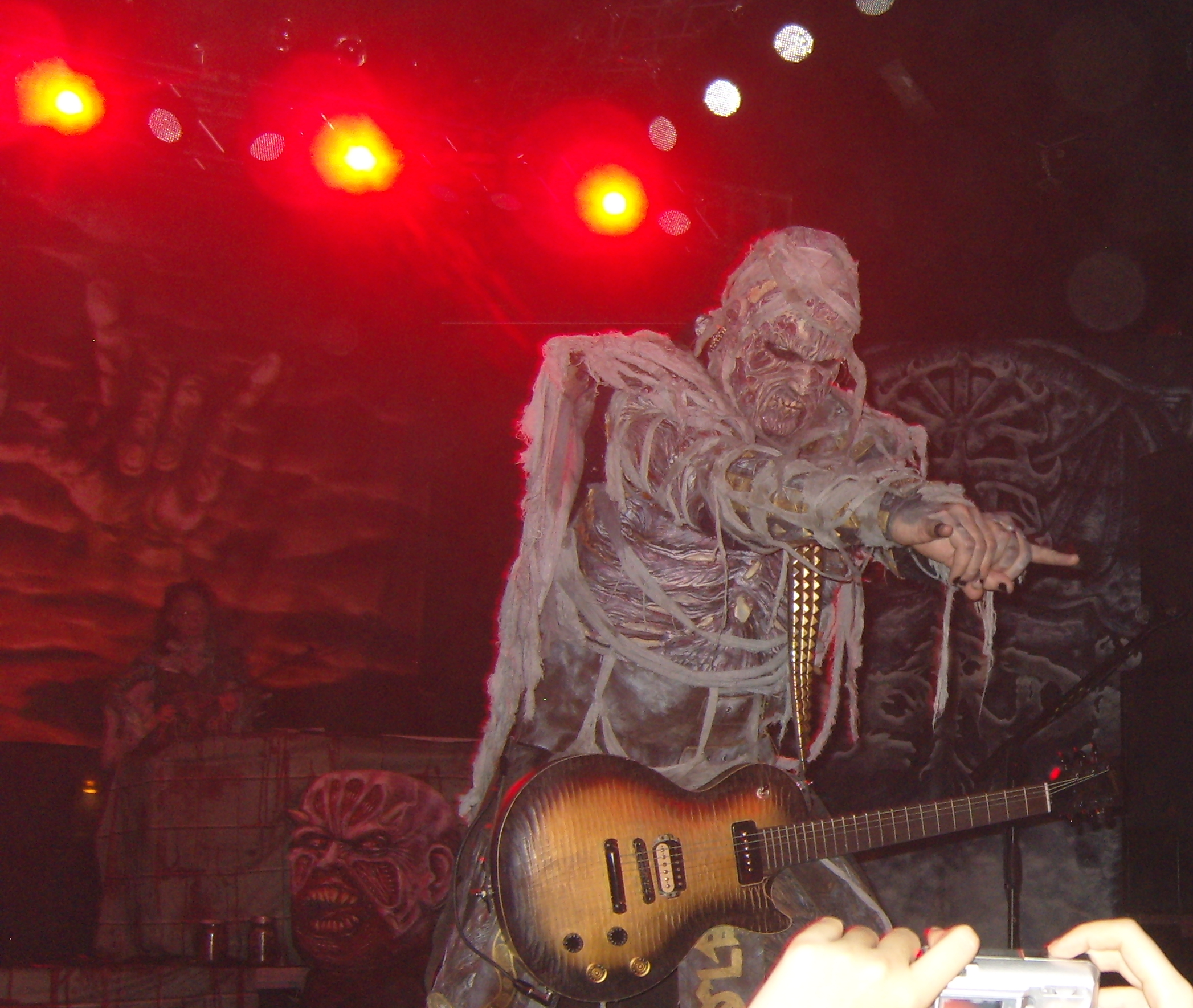 Amen live in concert in Milan at Magazzini Generali.